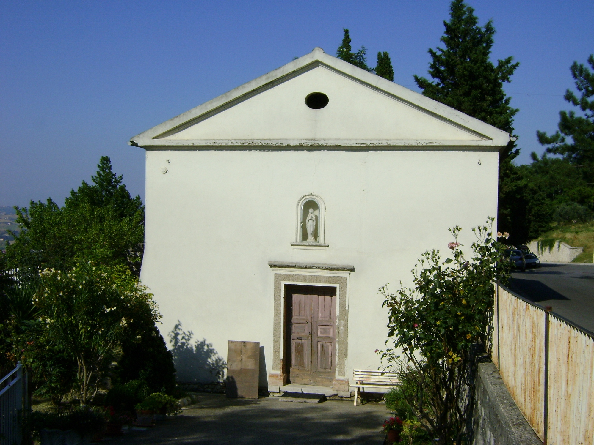 The church of Madonna delle Grazie, Altino, province of Chieti, Abruzzo